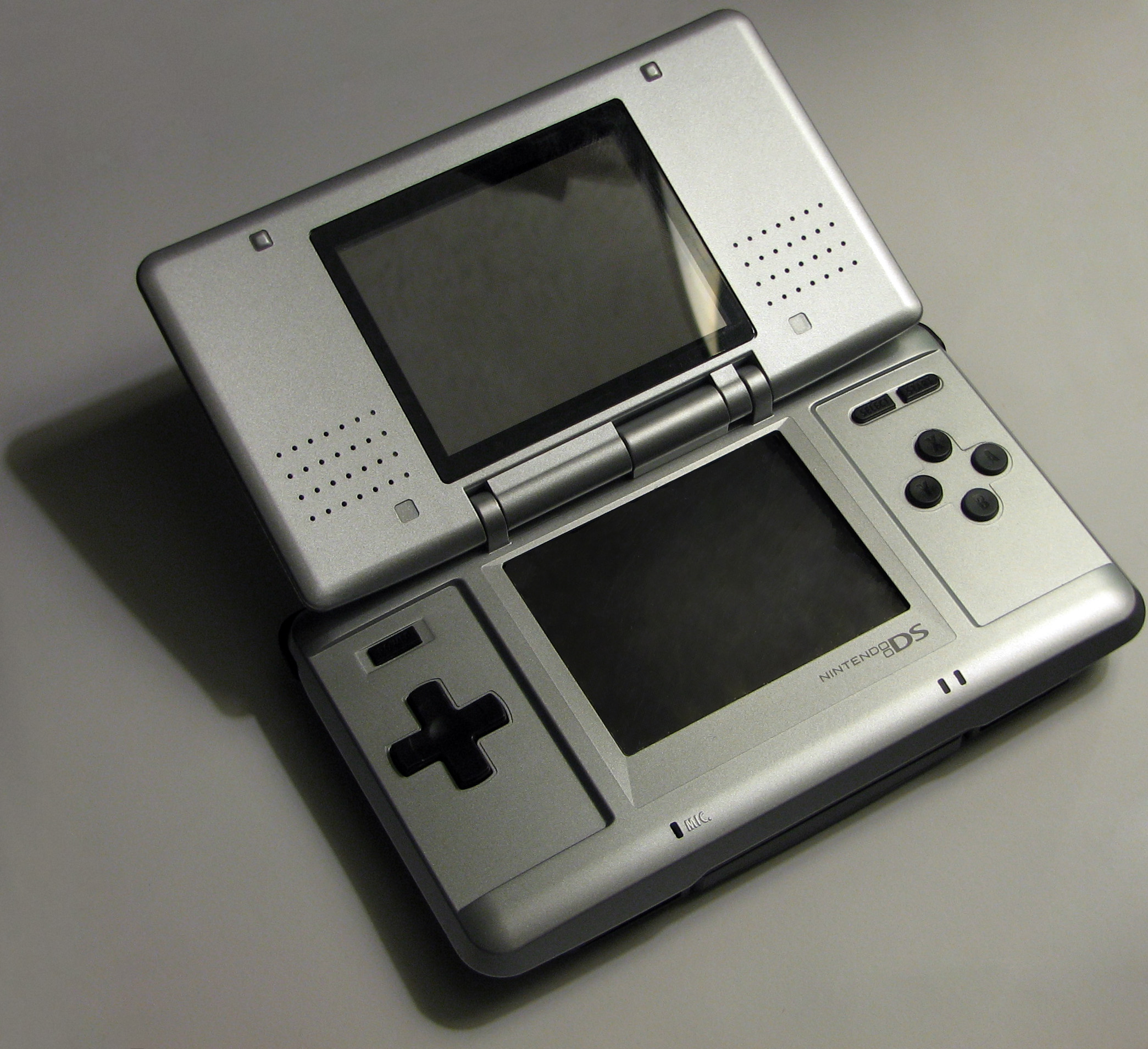 A Nintendo DS. My second attempt, this time with a warm grey look, as I could not for the life of me get it to work well under a white light. The bottom screen has a screen cover, which I attempted to make blend in somewhat better.